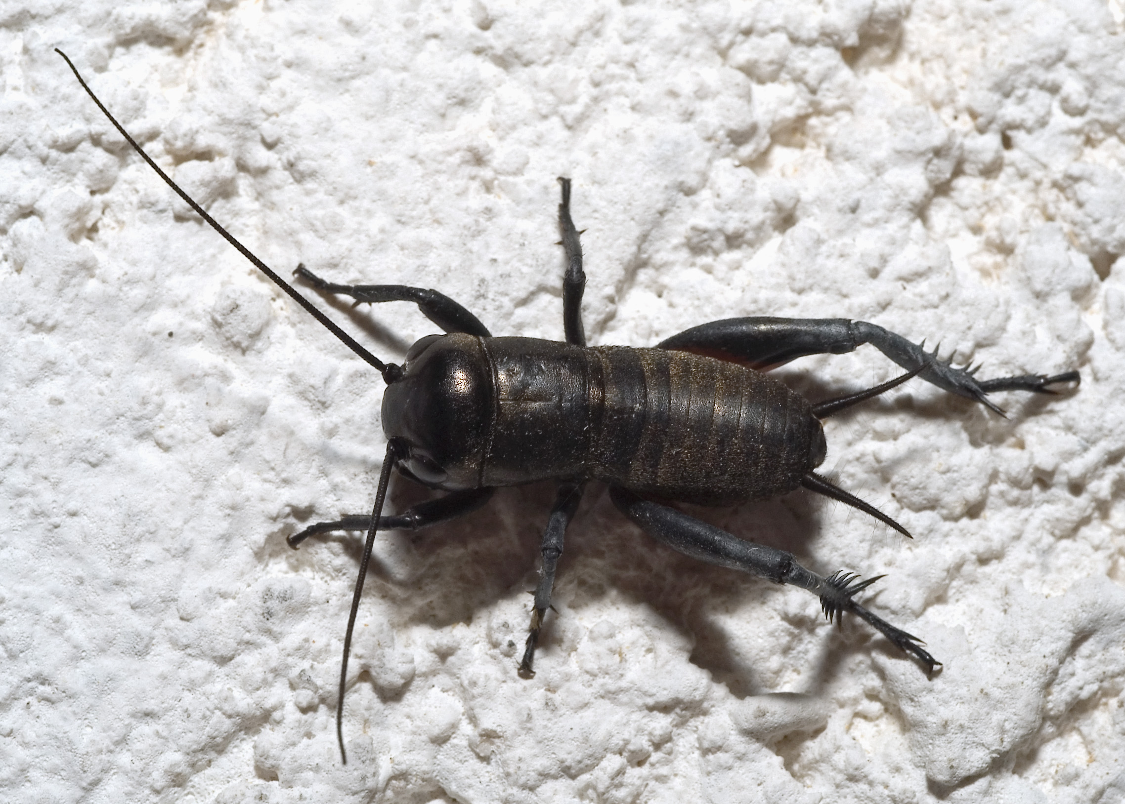 Please report references to kulacgmx.at.